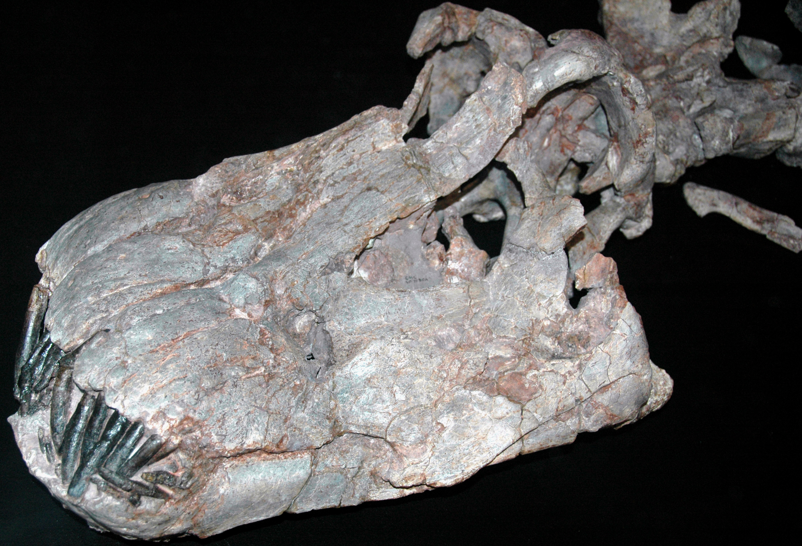 Apatosaurus ajax Marsh, 1877 sauropod dinosaur skull from the Jurassic of Utah, USA (public display, CMC VP 7180, Cincinnati Museum of Natural History & Science, Cincinnati, Ohio, USA). This is one of the few Apatosaurus/Brontosaurus sauropod dinosaur skulls in existence. It is articulated with several anterior neck vertebrae, which verifies its generic identity. It's likely species ID is Apatosaurus ajax (see Barrett et al., 2011). Classification: Animalia, Chordata, Vertebrata, Dinosauria, Sauropodomorpha, Diplodocidae Stratigraphy: Brushy Basin Member, Morrison Formation, Upper Jurassic Locality: Emery County, Utah, USA Reference cited: Barret, P.M., G.W. Storrs, M.T. Young & L.M. Witmer. 2011. A new skull of Apatosaurus and its taxonomic and palaeobiological implications. p. 5 in 59th Annual Symposium of Vertebrate Palaeontology and Comparative Anatomy, Abstracts of Presentations, Lyme Regis, Dorset, UK, September 12th-17th 2011. Sauropod dinosaurs were the largest terrestrial animals ever. They all have the same basic body plan: large body with four walking legs, very long neck & tail, and a small head relative to body size. Sauropods were herbivores, and are often perceived as holding their heads & necks up high to reach vegetation normally out of reach to other organisms. Modern reconstructions of many sauropod species depict them with heads and necks held close to the horizontal, or at low angles above the horizontal.